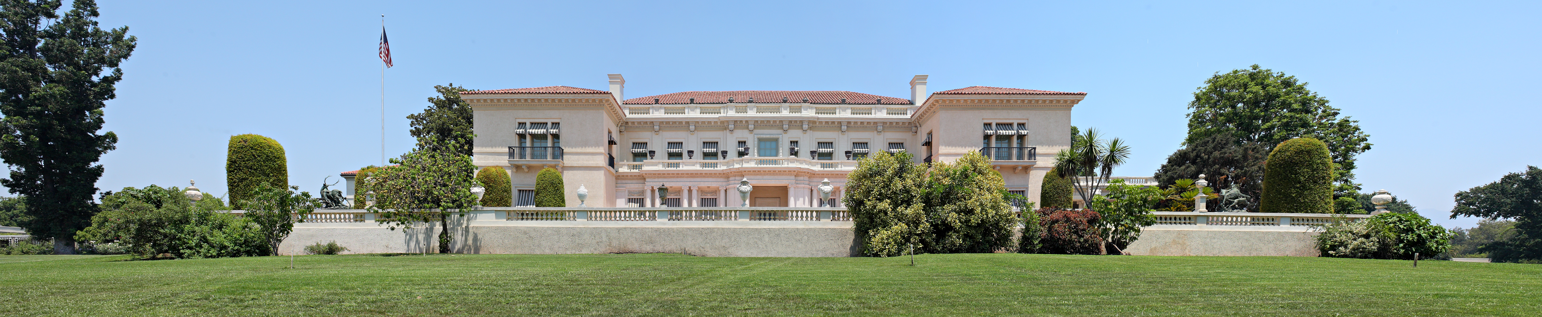 The former Huntington Mansion designed by Myron Hunt, and present day Art Gallery building — at the Huntington Library, in San Marino, California. Once the home of Henry E. Huntington (1850–1927) and his wife, Arabella (1850–1924), the Huntington Art Gallery opened in 1928 as the first public art gallery in Southern California. A 3 image stitch (original, non CC, at 14000 wide)